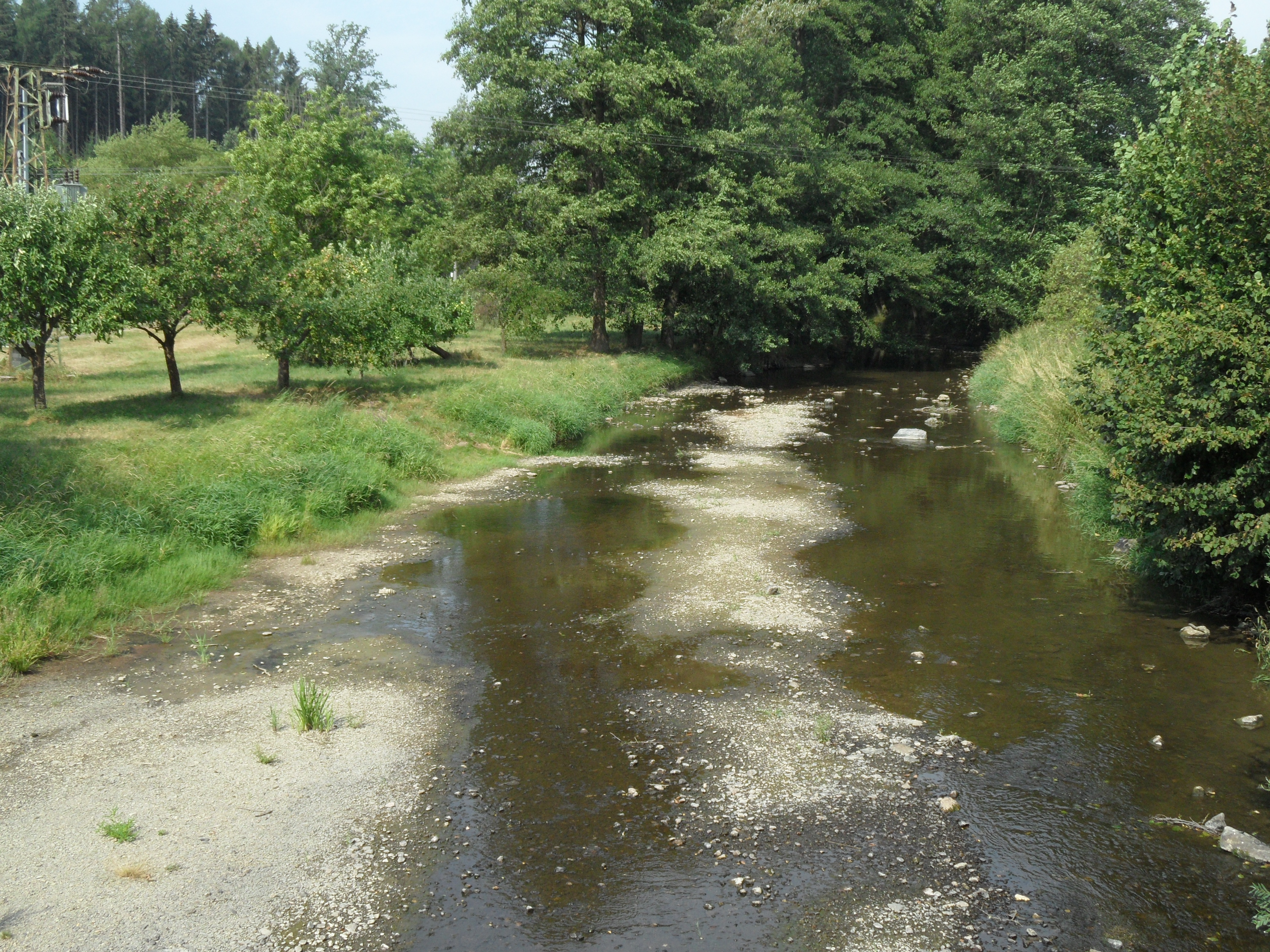 Doubrava River: kilometr 50,5. C. Jeřišno, View from Bridge, Hot Summer 2015. Havlíčkův Brod Disctrict, the Czech Republic.